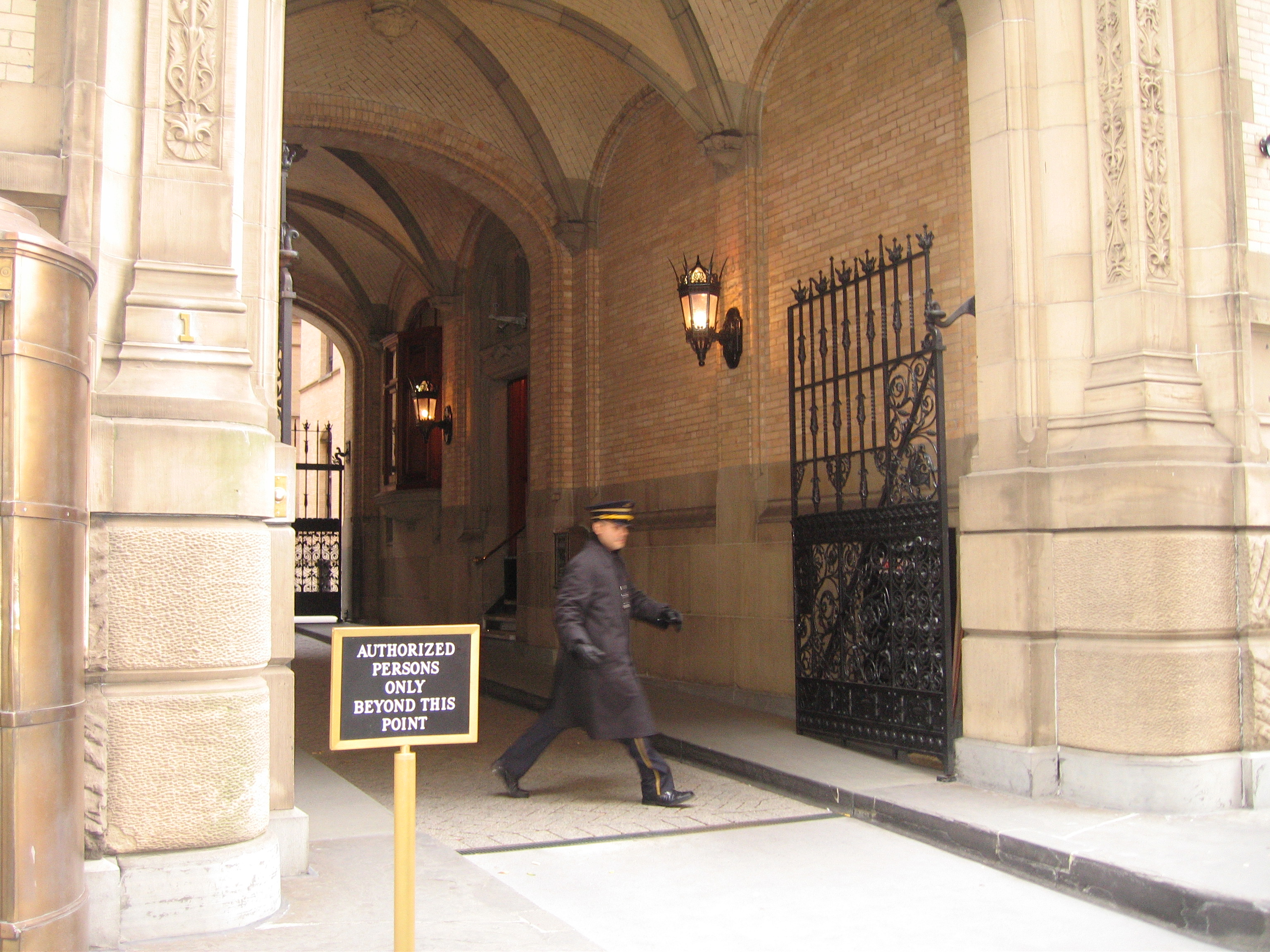 Photo of the entryway to the Dakota Apartments. Side view, showing the steps to the lobby that John Lennon walked up before he collapsed, 8 Dec. 1980.